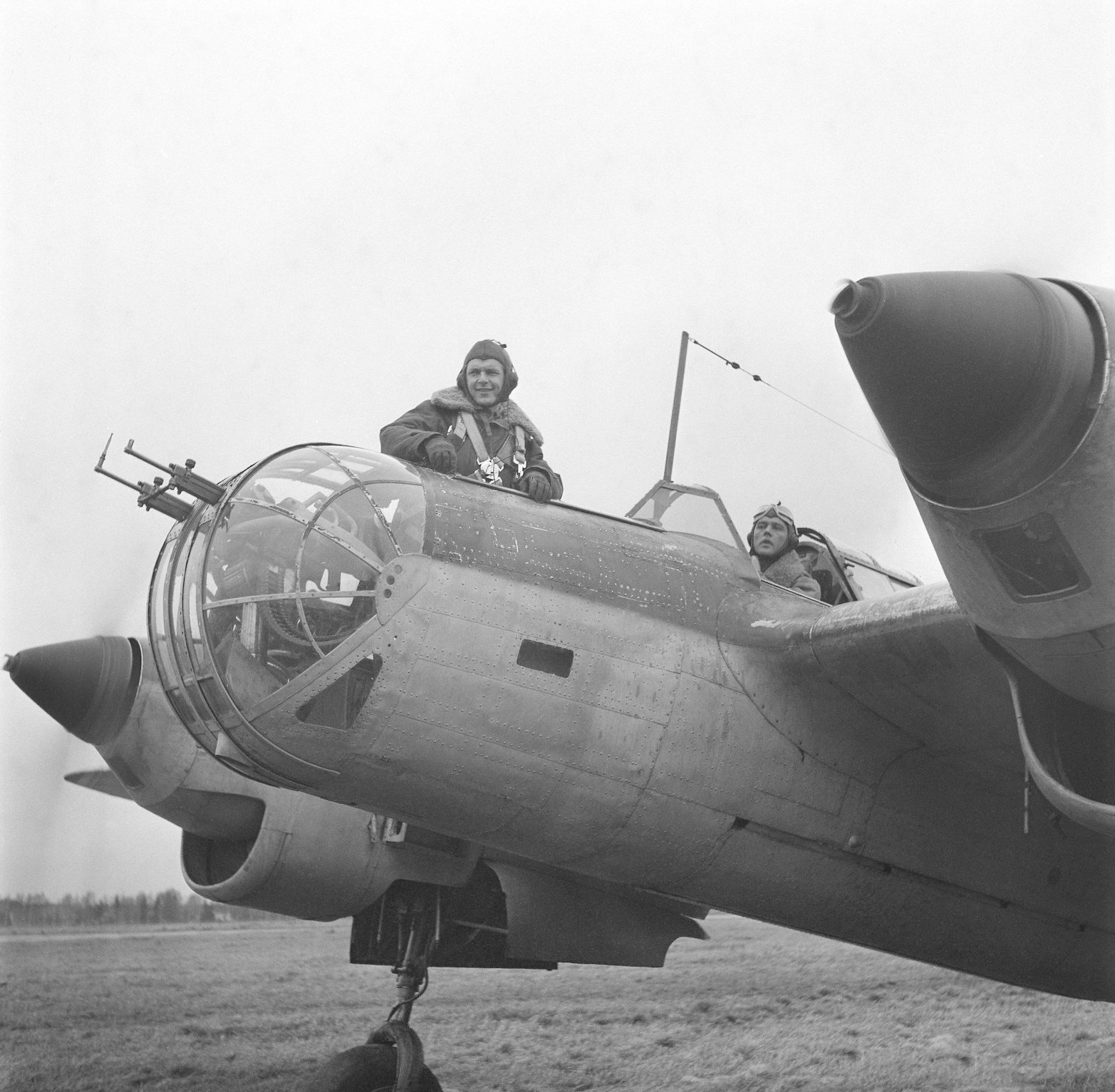 Soviet SB bomber in Finnish service.